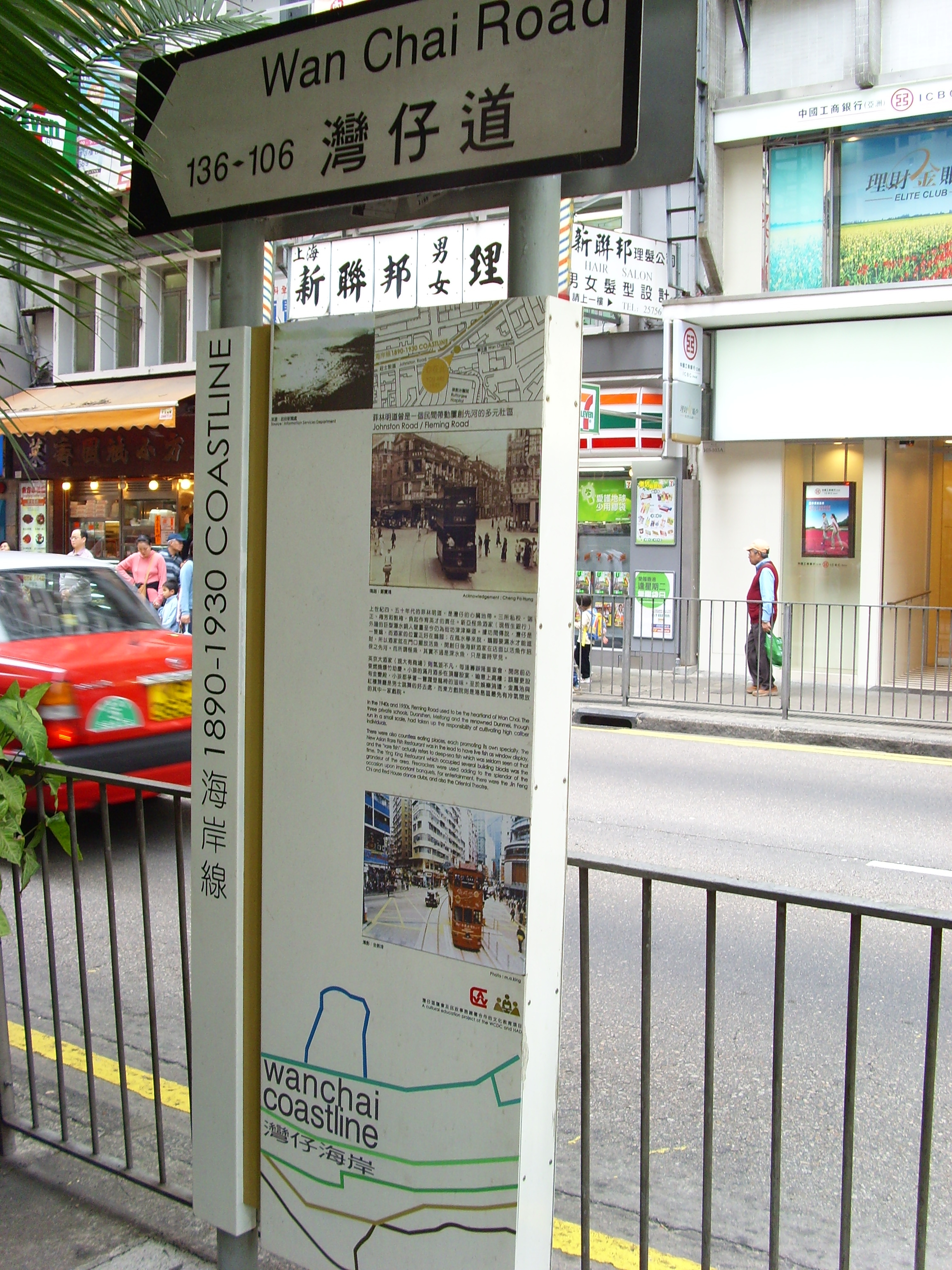 Wan Chai Rd 1890-1930 Coastline 灣仔道1890-1930年海岸線